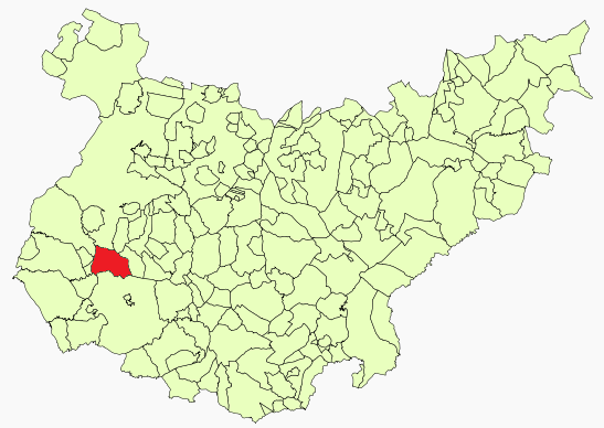 Barcarrota